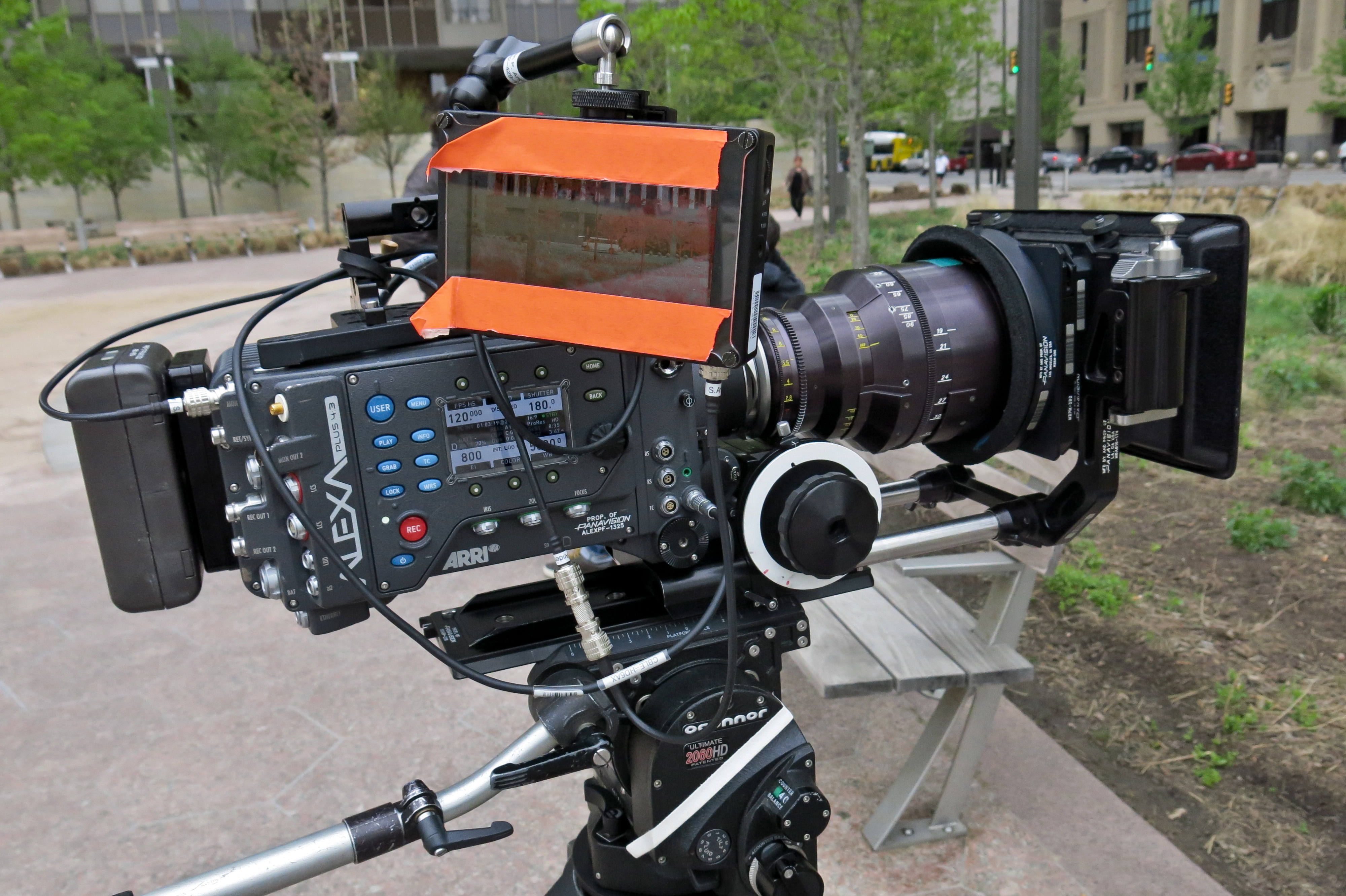 Arri Alexa Plus 4:3